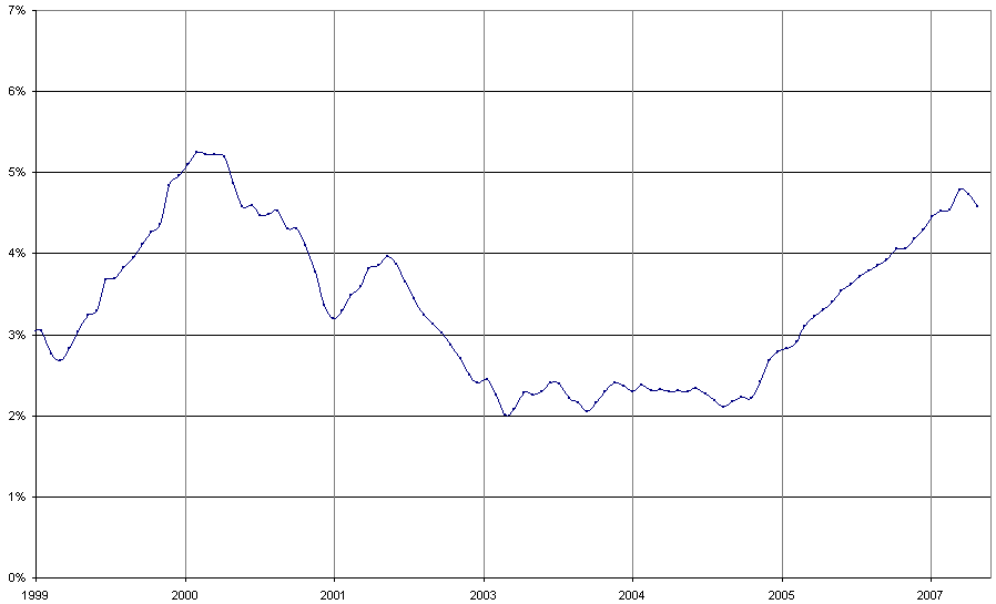 New graph which include last euribor data